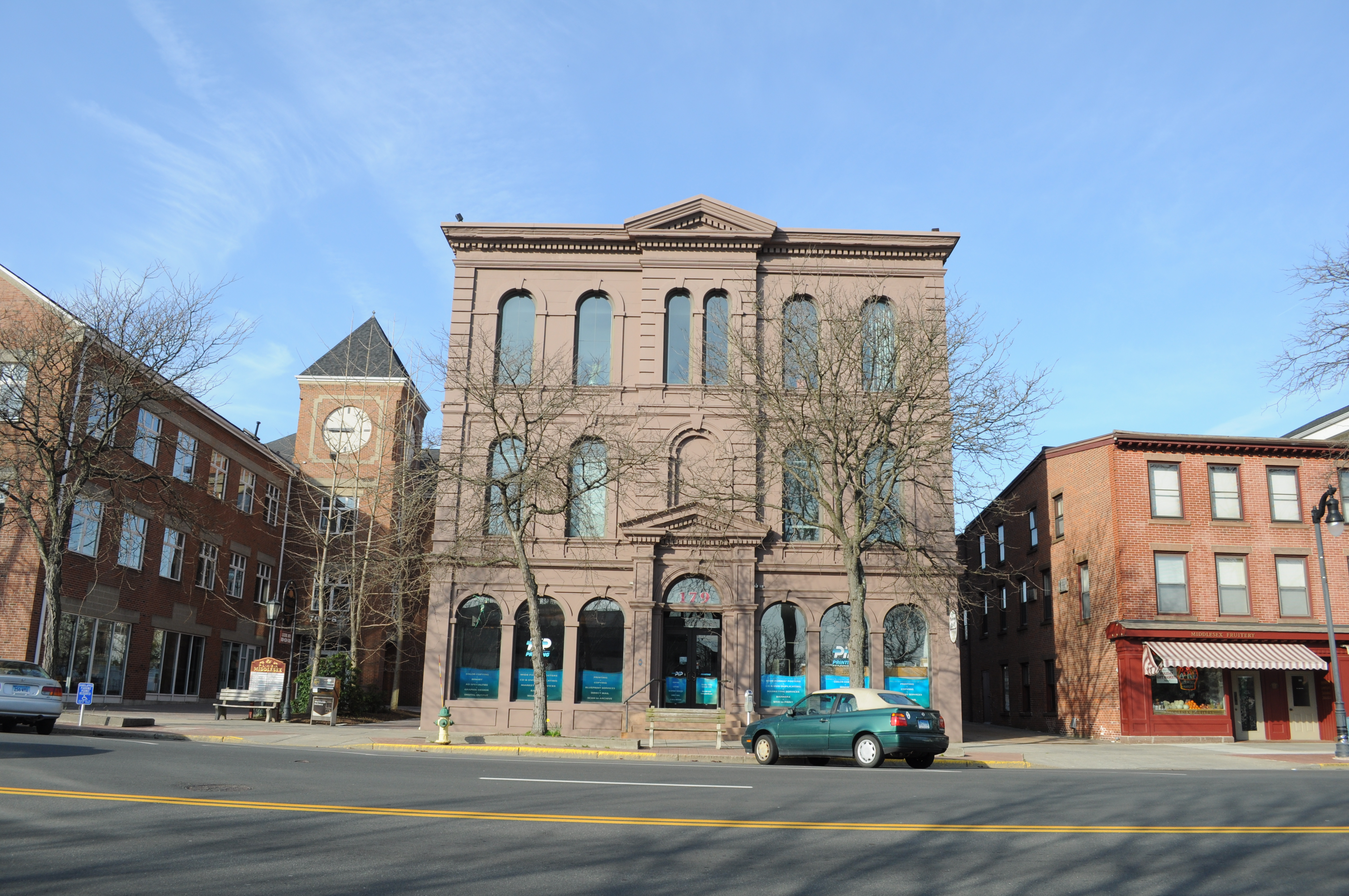 Buildings on the west side of Main Street, Middletown, Connecticut, USA. From left to right: (partly visible at left) 171 Main Street, former site of Hall House. Now part of Middlesex Plaza. I'm not sure if any of what is visible in back is old. There might be part of the former Middlesex Opera House/Middlesex Theater, 179 Main Street (rear), designed by Francis H. Kimball and built 1892 behind Middlesex Assurance Co. 179 Main Street, former Middlesex Assurance Co., built 1867, now part of Middlesex Plaza 191-195 Main Street. At least part of this building dates from 1835, but according to the NRHP nomination "a brick fire wall down the center of the building, suggest[s] the possibility that originally it was one-half its present size... [B]y 1856 both halves were in place, but as a two and one-half story building with gable roof... The full third story was added c. 1891, along with a new front facade... All of these are contributing properties of the Metro South Historic District, which is on the National Register of Historic Places.